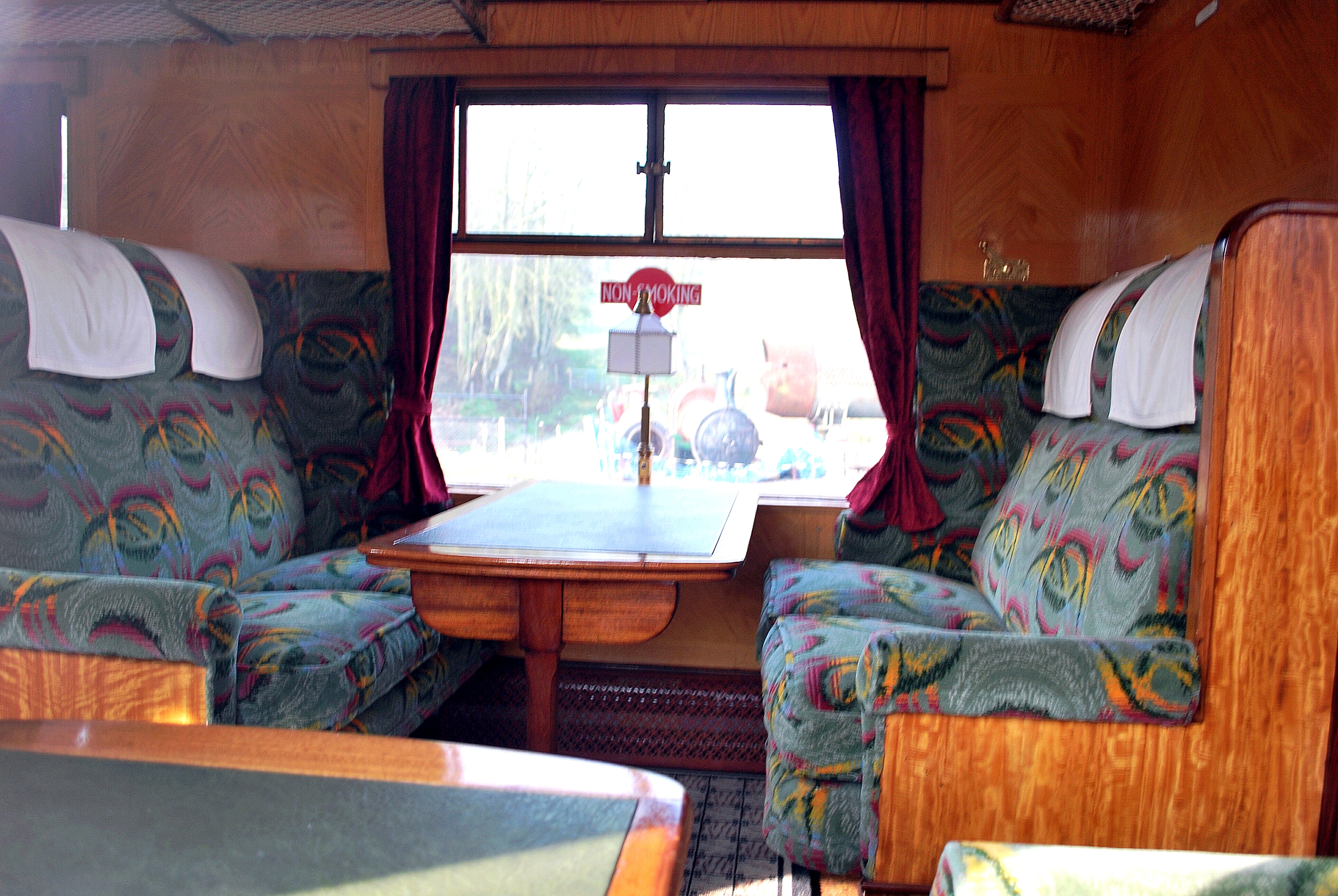 First Class interior (seen through the window glass!) of LMS Stanier 65' "QL" (BR "RFO") First Class Vestibule Diner No.7511 built at Wolverton 1934, Diagram 1902, Lot 734. At Bridgnorth, Severn Valley Railway, 03/12.